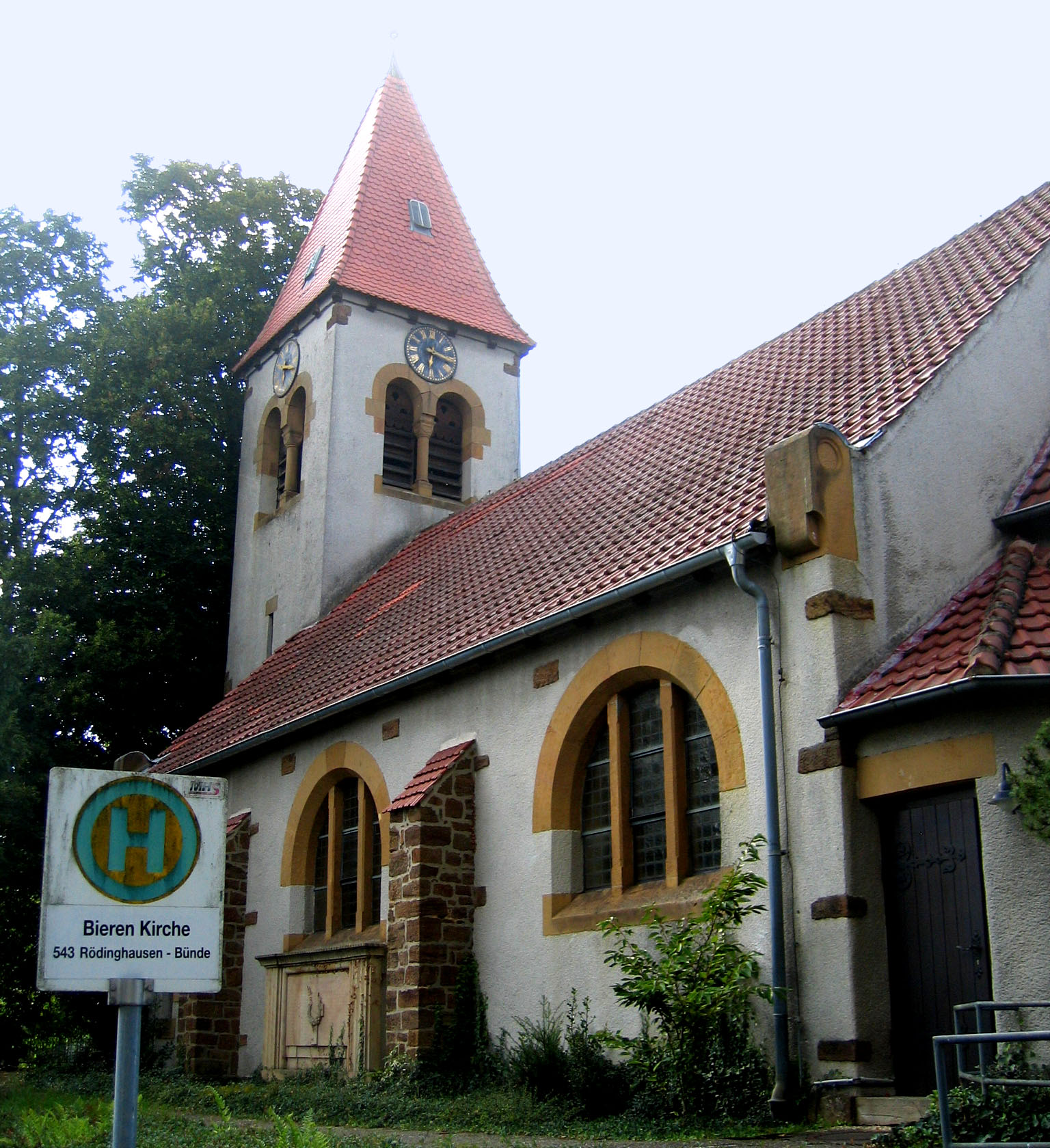 Church the town of Rödinghausen-Bieren, Germany.